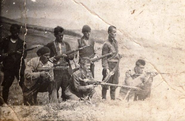 Fighters of Democratic Army of Greece in the village Ezero, near Kastoria This media file is produced by Wikipedian in Residence in Category:Wikipedian in Residence at DARM in 2016.